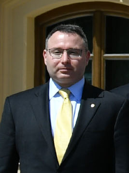 Depicted person: Alexander Vindman – American military officer, diplomat, and national security officer